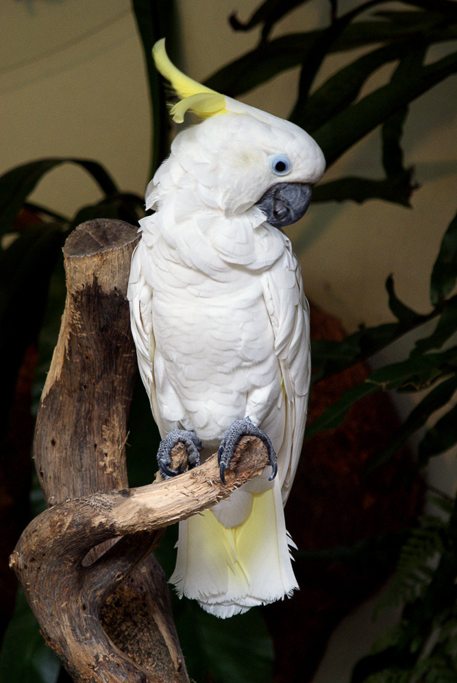 Sulphur-crested Cockatoo at Kuala Lumpur Bird Park. Kakaktua Jambul Kuning, Kuala Lumpur Bird Park, Malaysia.